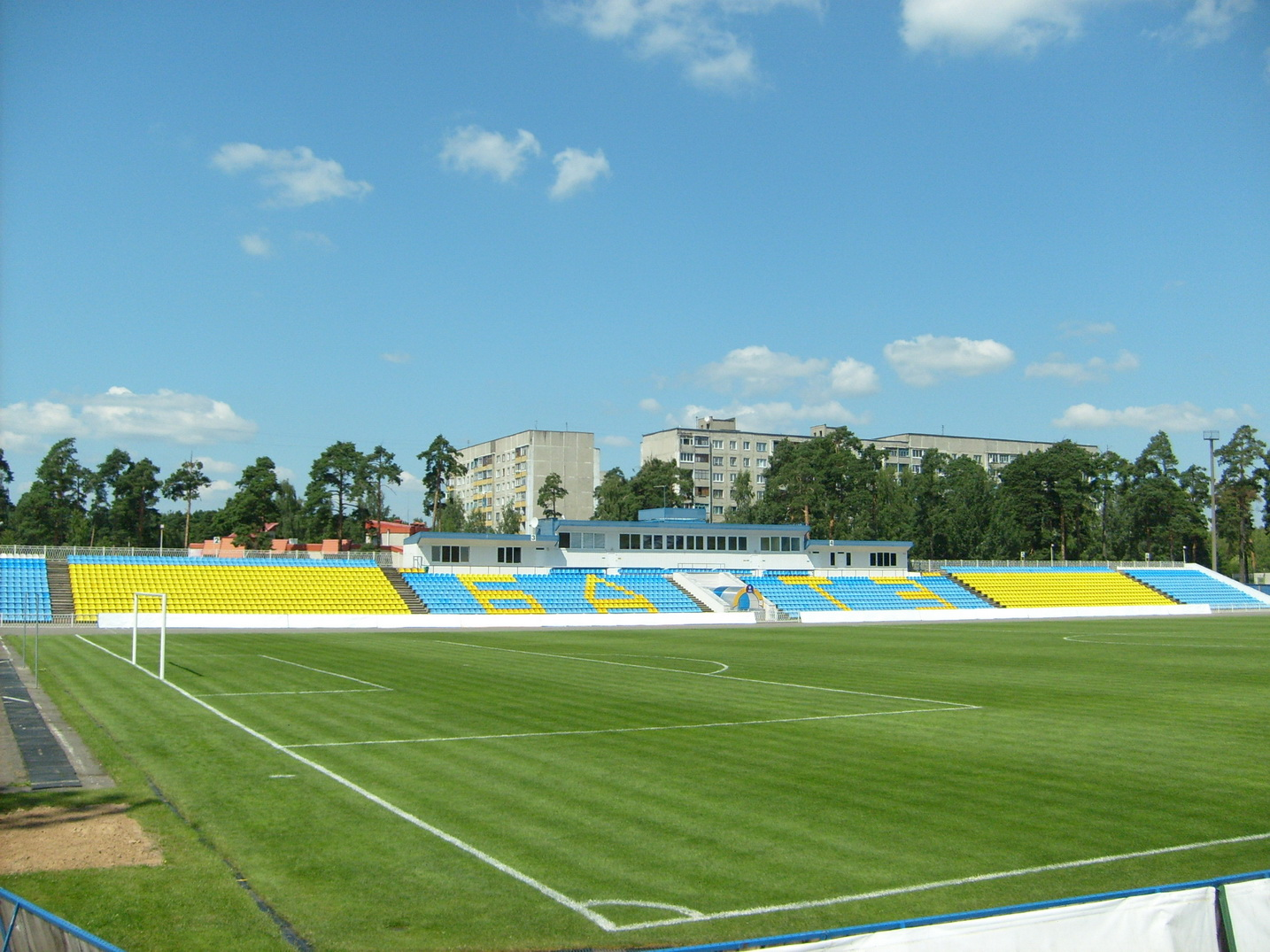 Borisov Stadium. West stand